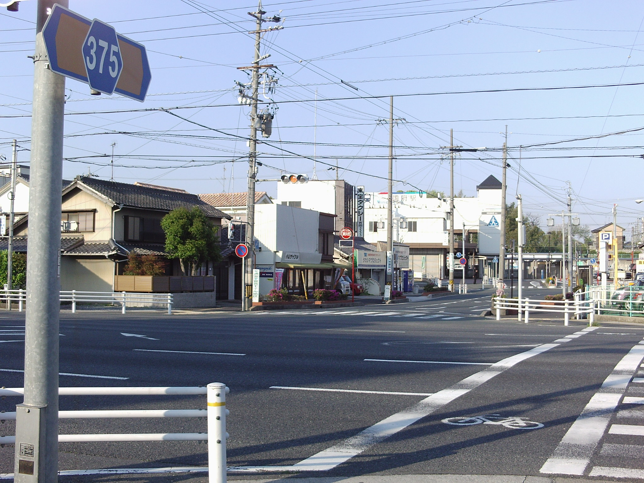 Aichi prefectural road No.375 in Shinsakaemachi 1-chome, Toyokawa, Aichi.